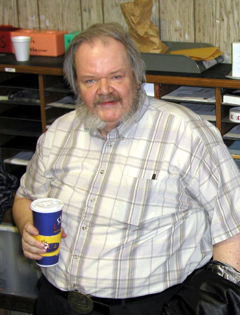 American science fiction author Jack L. Chalker (left), January 2003.